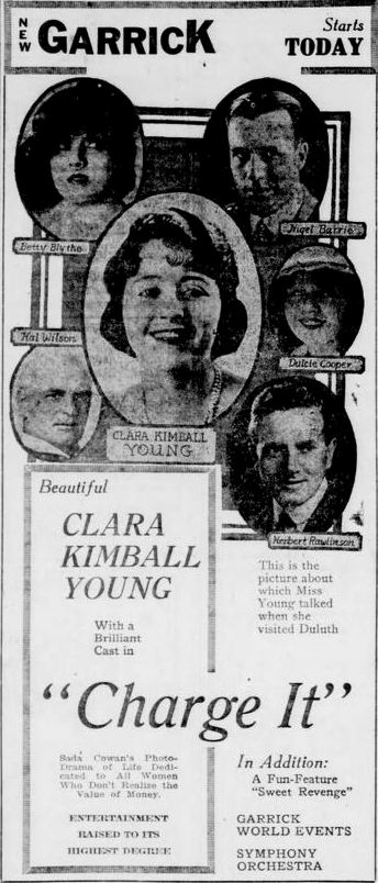 Newspaper advertisement for the American silent film Charge It (1921) with Clara Kimball Young, Betty Blythe, Nigel Barrie, Dulcie Cooper, Hal Wilson, and Herbert Rawlinson, on page 5 of the August 11, 1921 Duluth Herald.